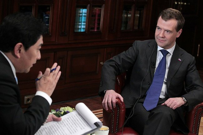 Interview to China Central Television (CCTV)